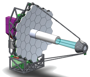 9.2m ATLAST artist's conception (STSCI)